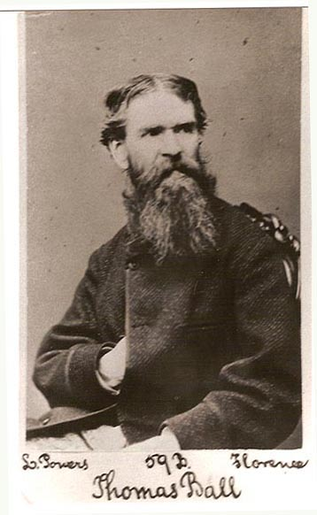 Thomas Ball (1819-1911), American artist and musician